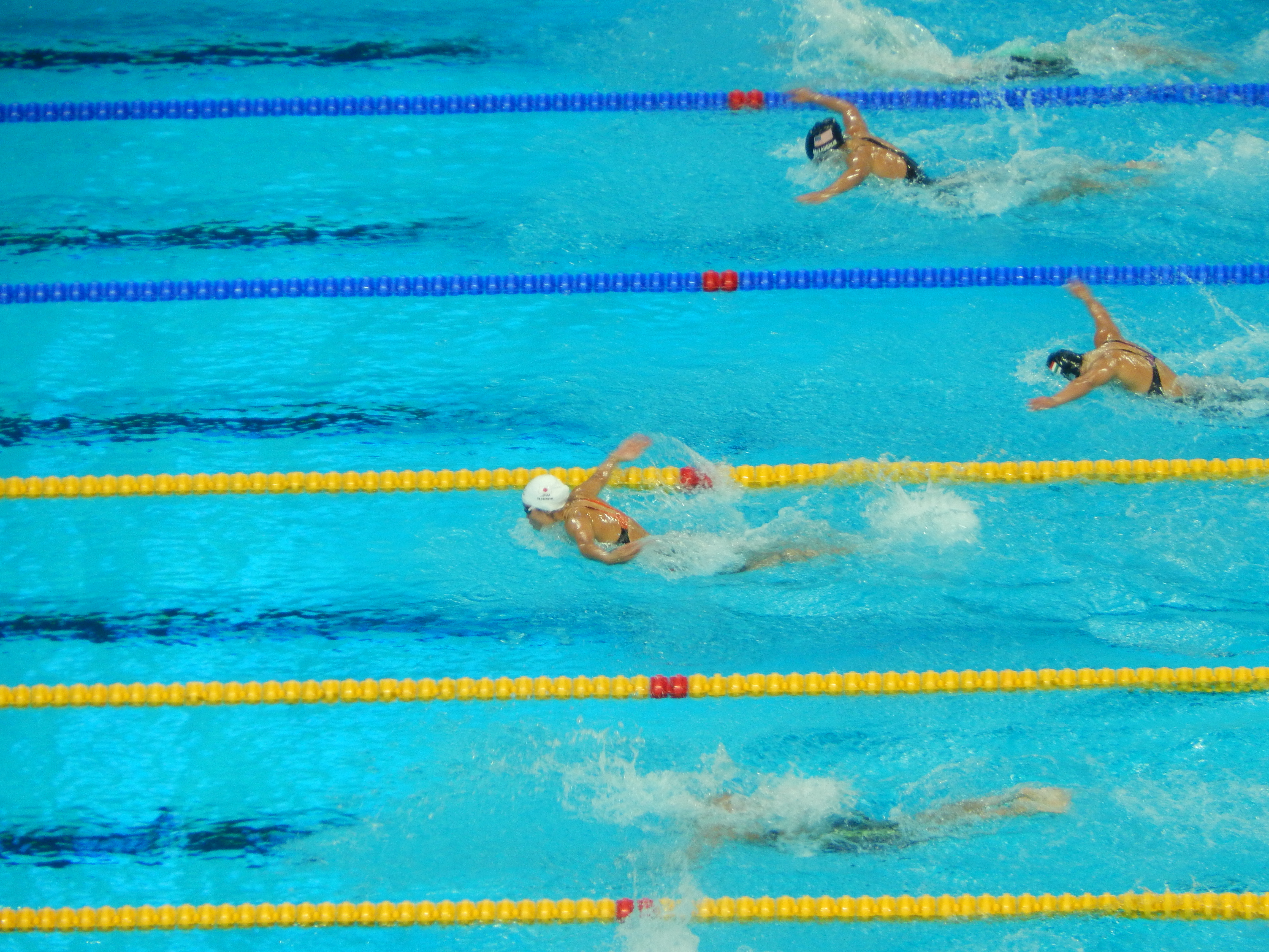 Natsumi Hoshi swims for gold at 200m butterfly in Kazan